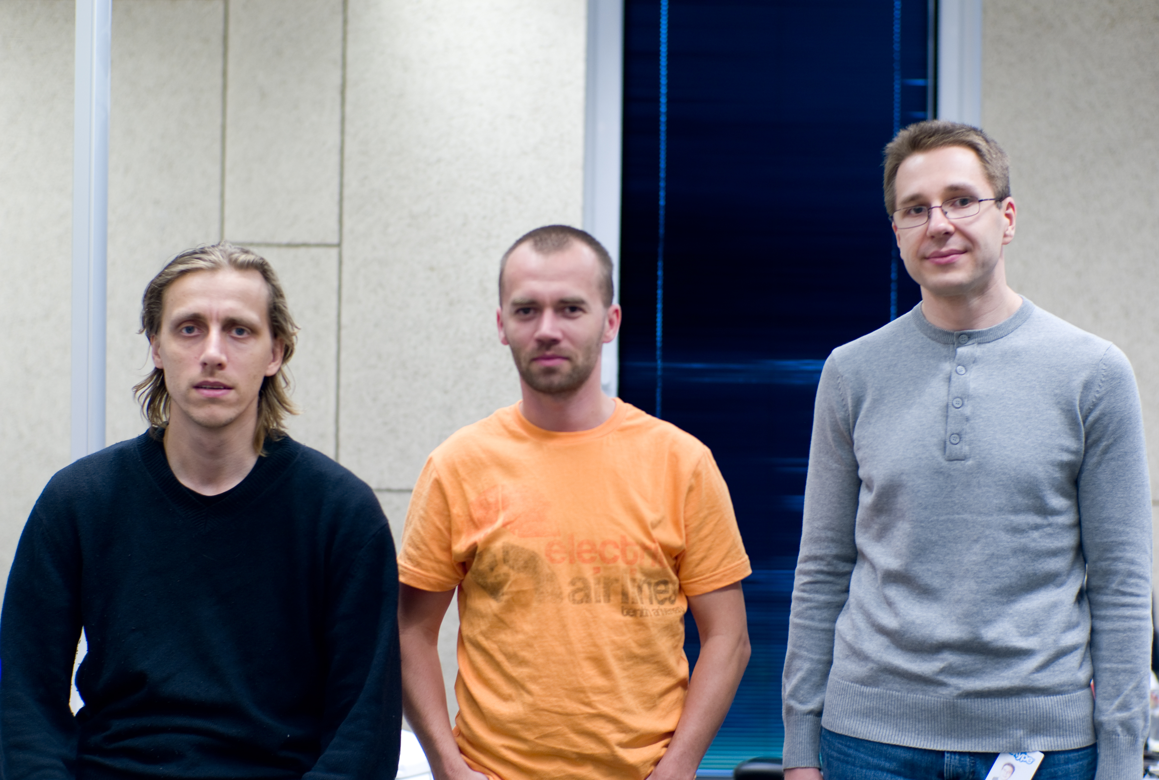 Ahti Heinla, Toivo Annus and Priit Kasesalu of Ambient Sound Investments in Tallinn, Estonia.